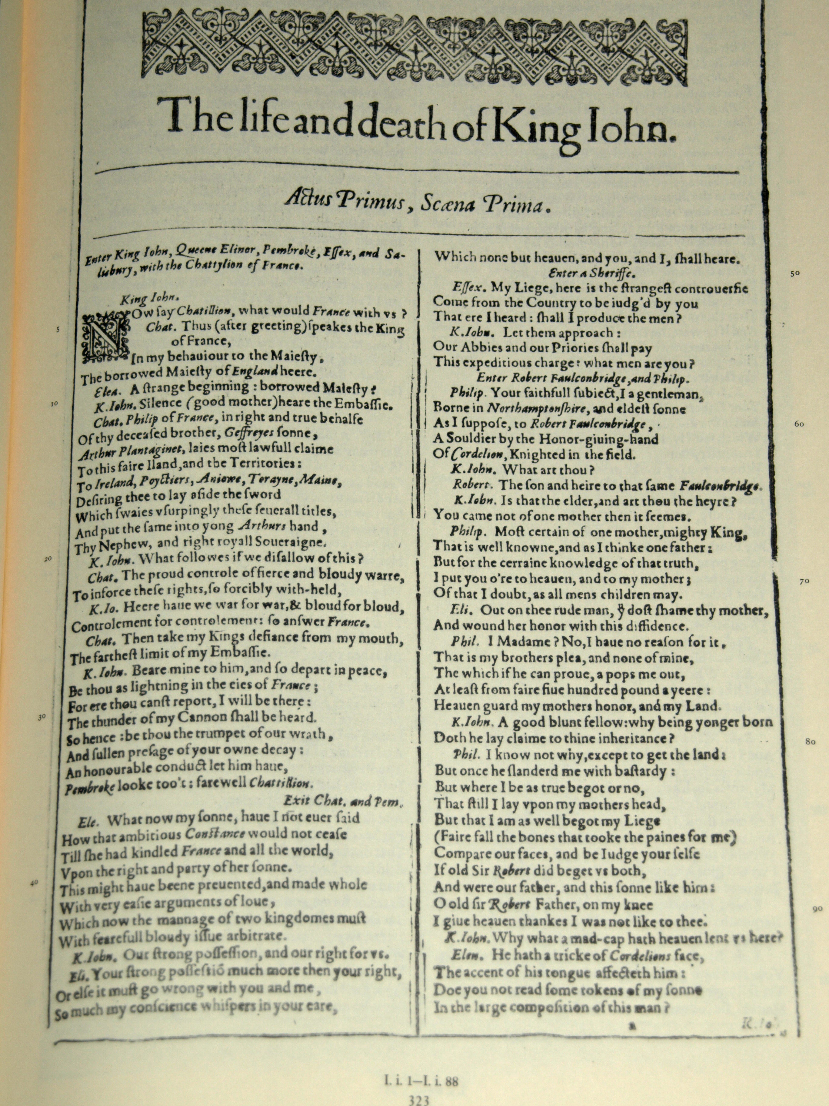 Photo of the first page of King John from a facsimile edition of the First Folio of Shakespeare's plays, published in 1623